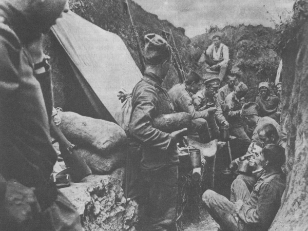 The 7th company in the trenches of Zborov